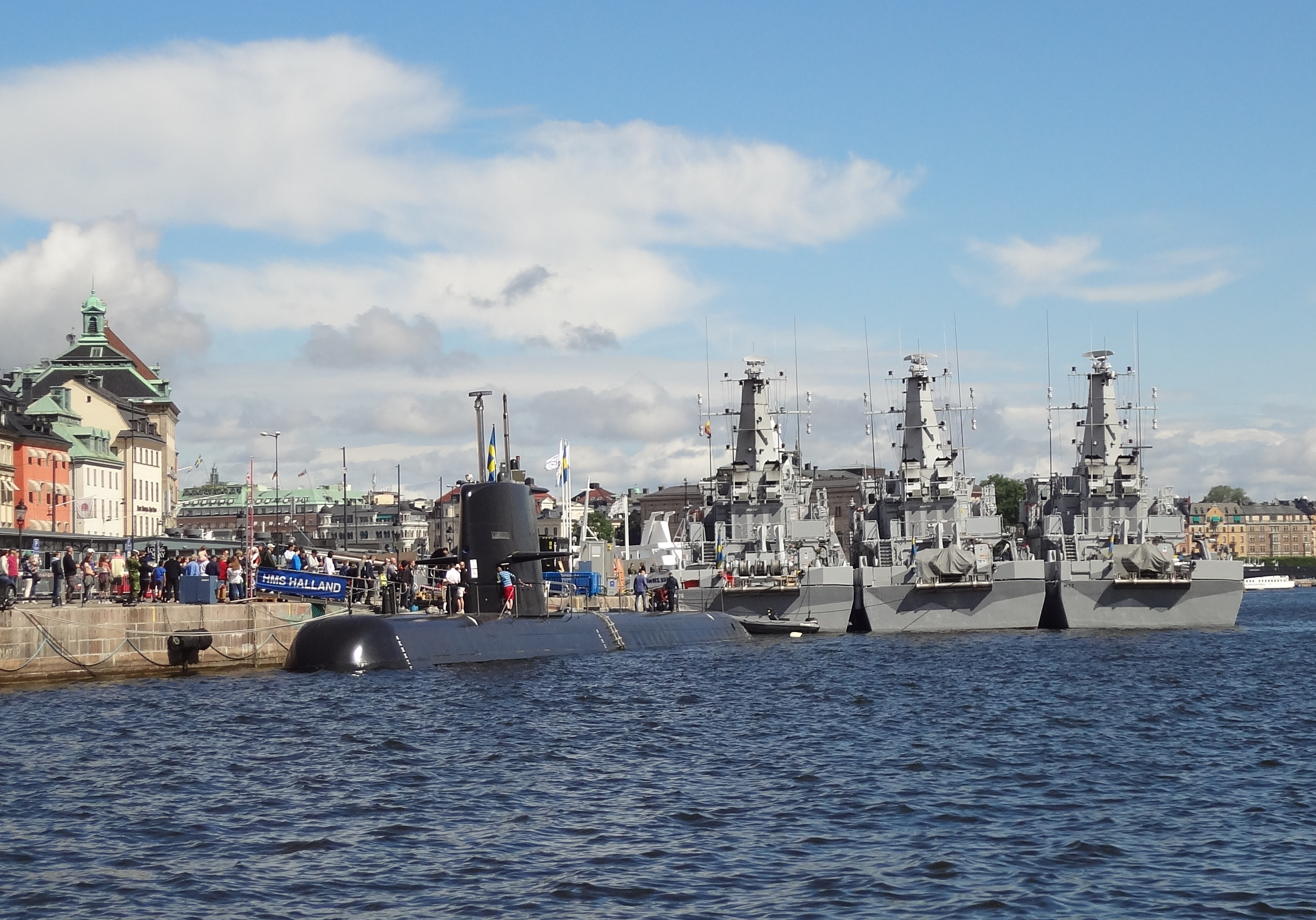 Submarine HMS Halland, in Stockholm.